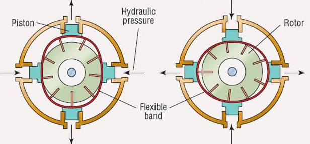 Tom Kasmer